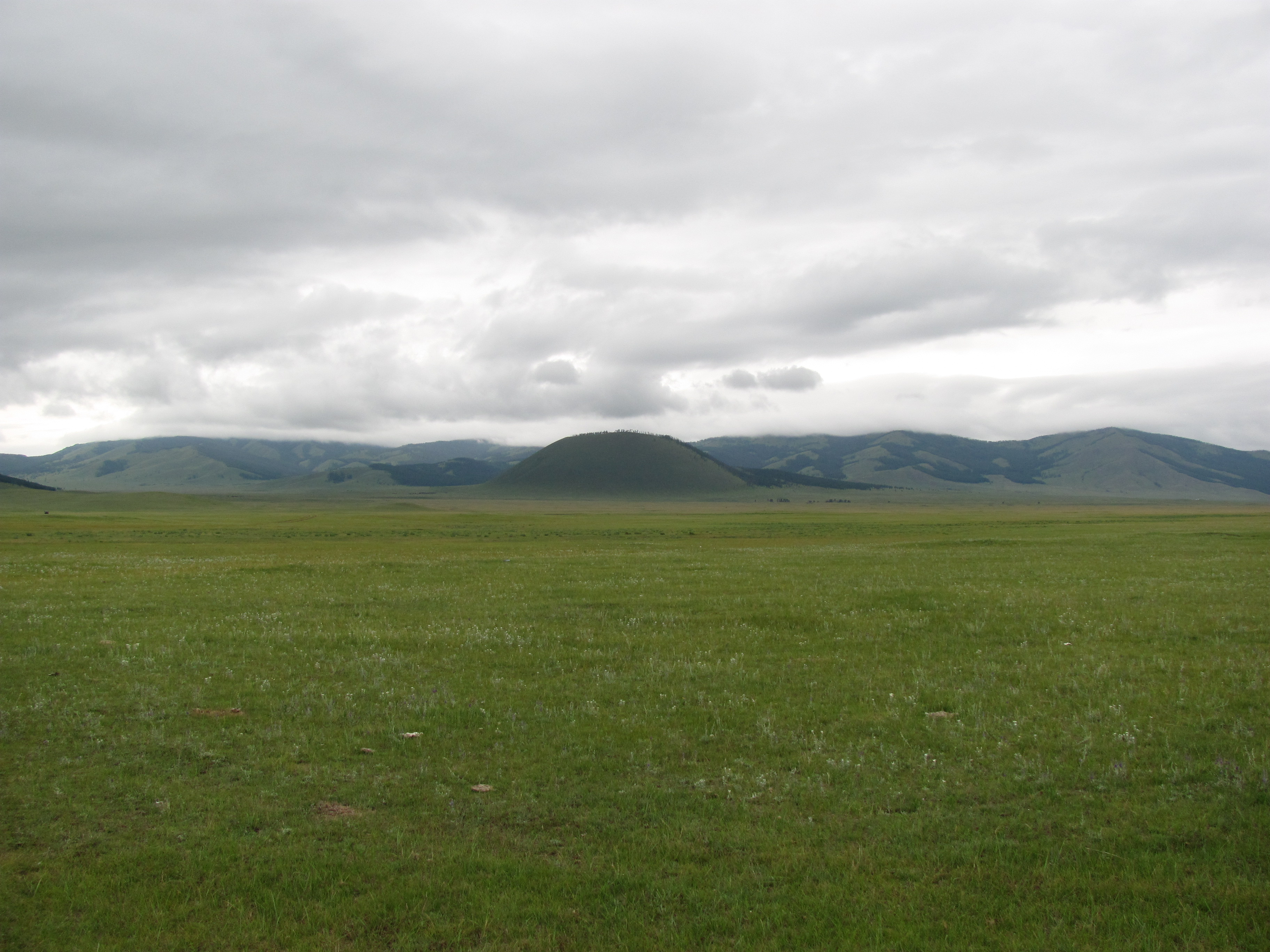 Uran Uul, an extinct volcano, Bulgan Aimag, Mongolia.